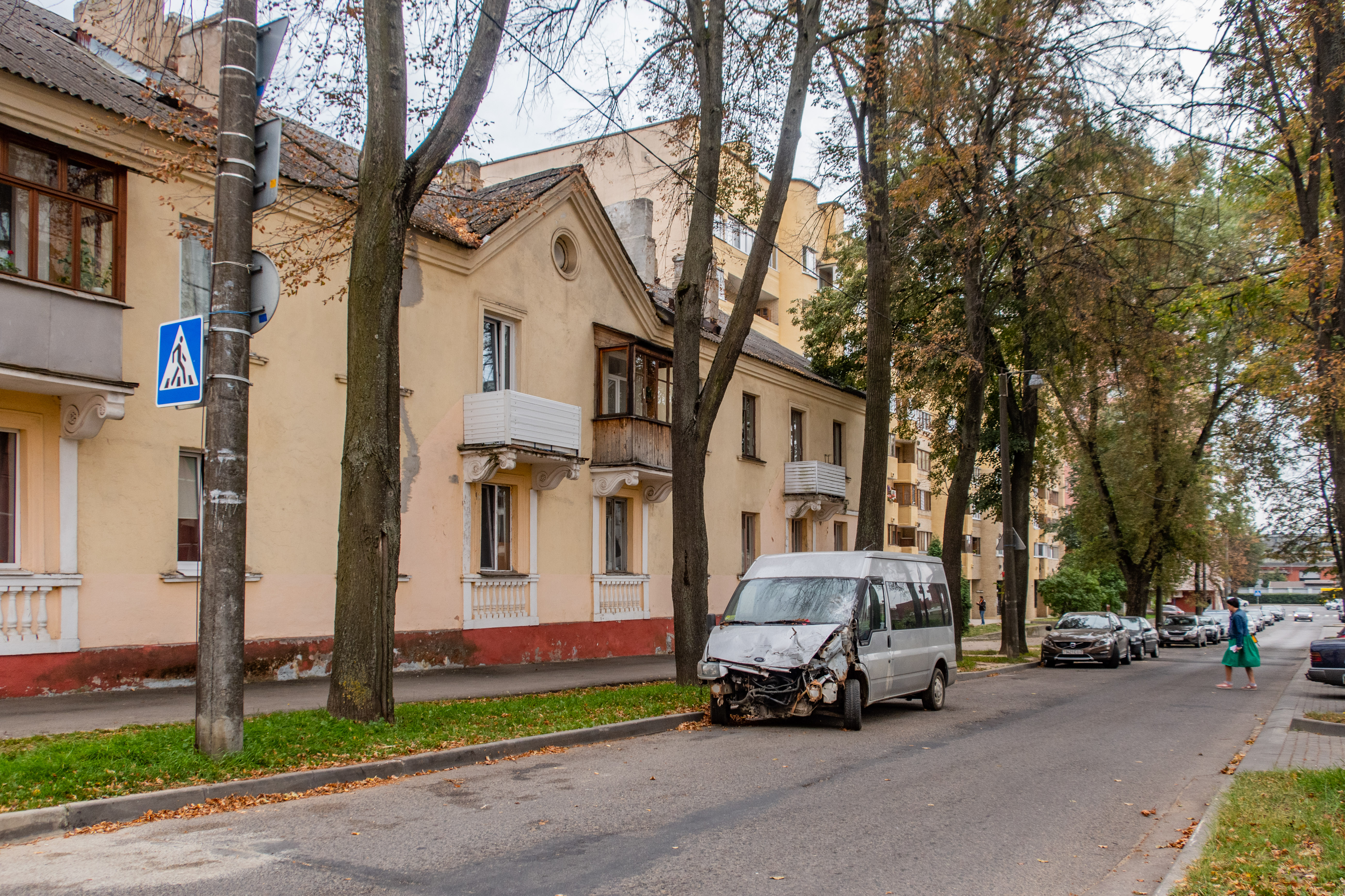 Klubny passage. Minsk, Belarus